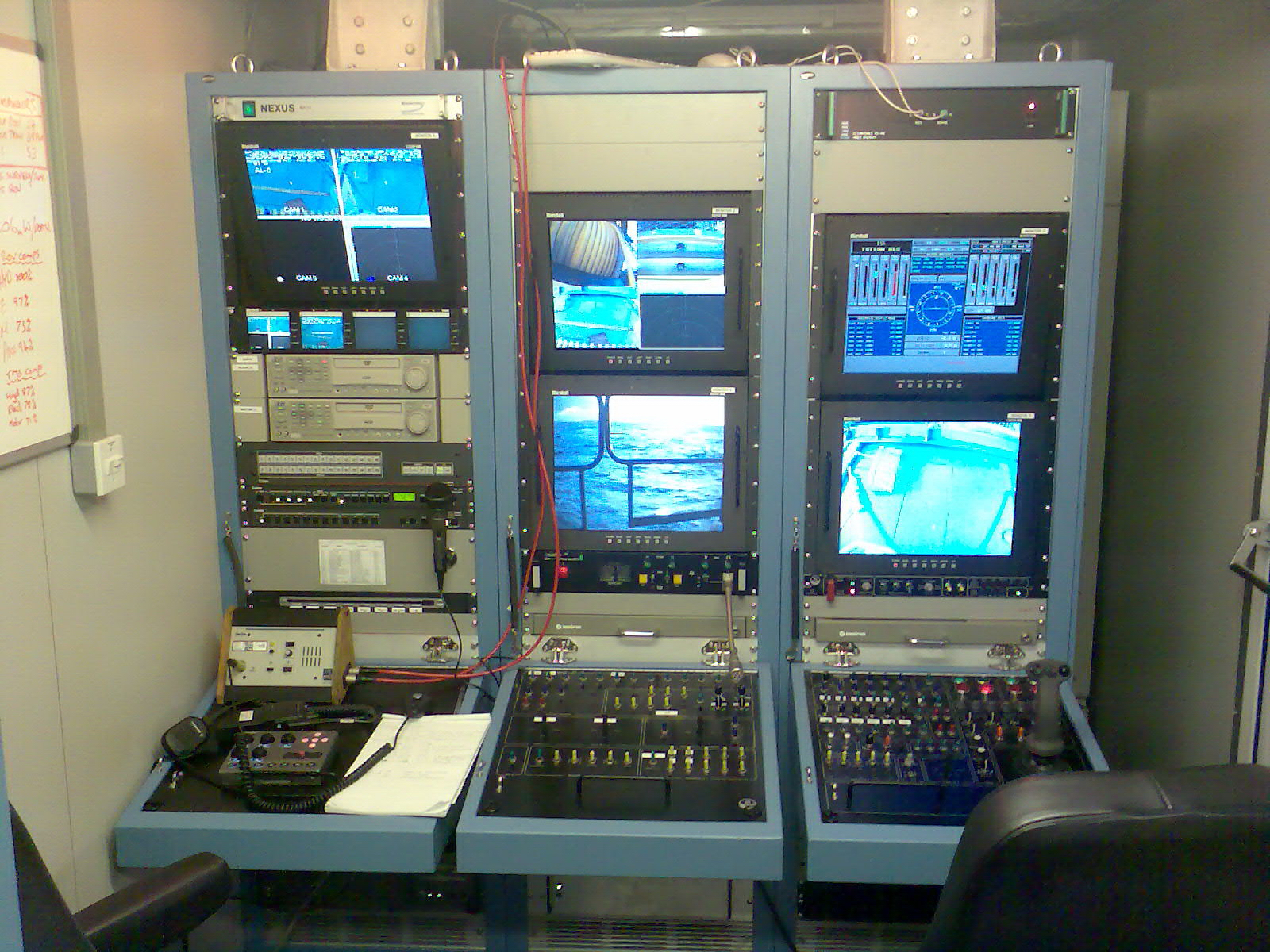 Triton XLS control cabin